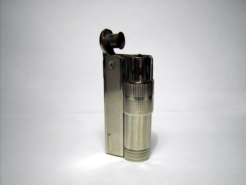 a IMCO Triplex Super lighter